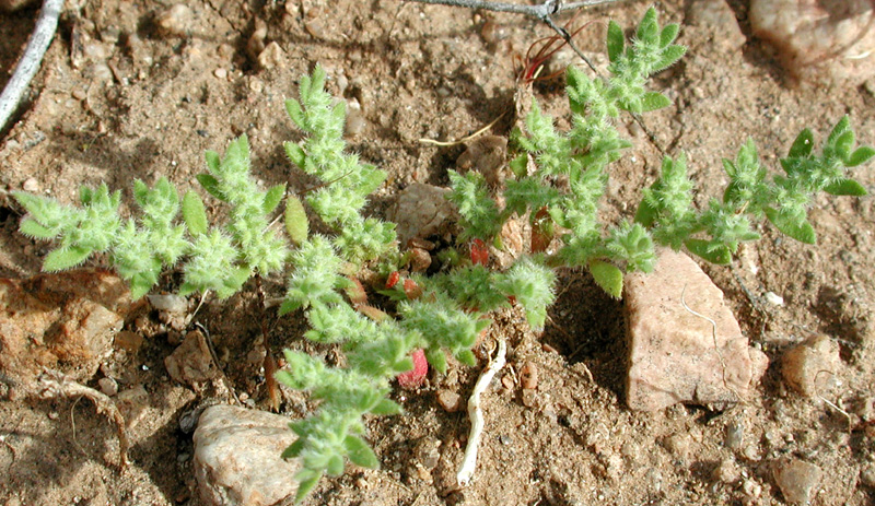 Herniaria cinerea from western foothills of Mazatzal Mountains, Maricopa County, Arizona, USA.